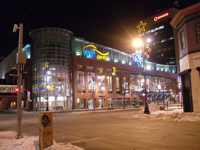 The MTS Centre in Manitoba